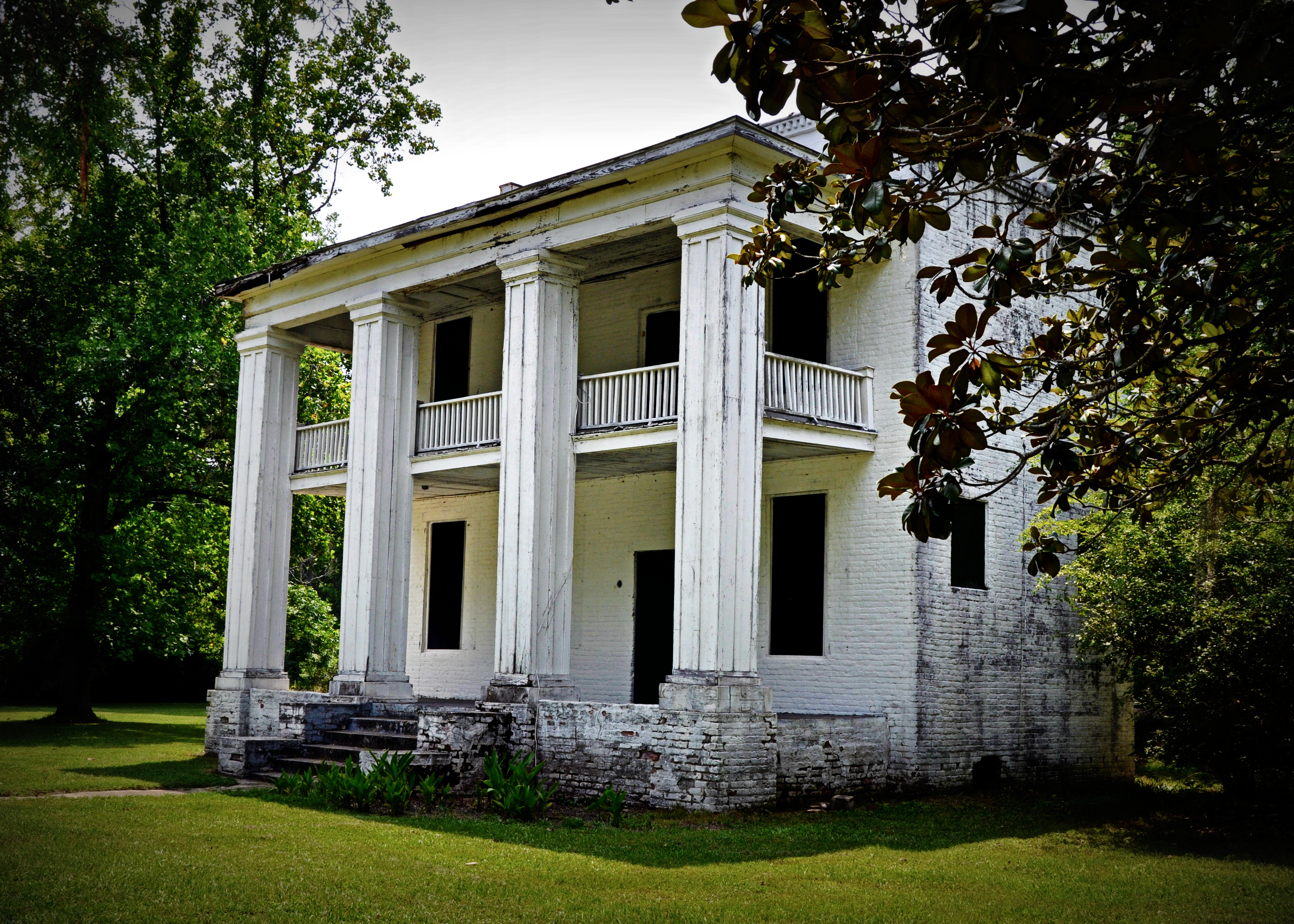 Kirkpatrick mansion on Oak Street, burned in 1935. The two-story brick slave quarters remains intact, however.